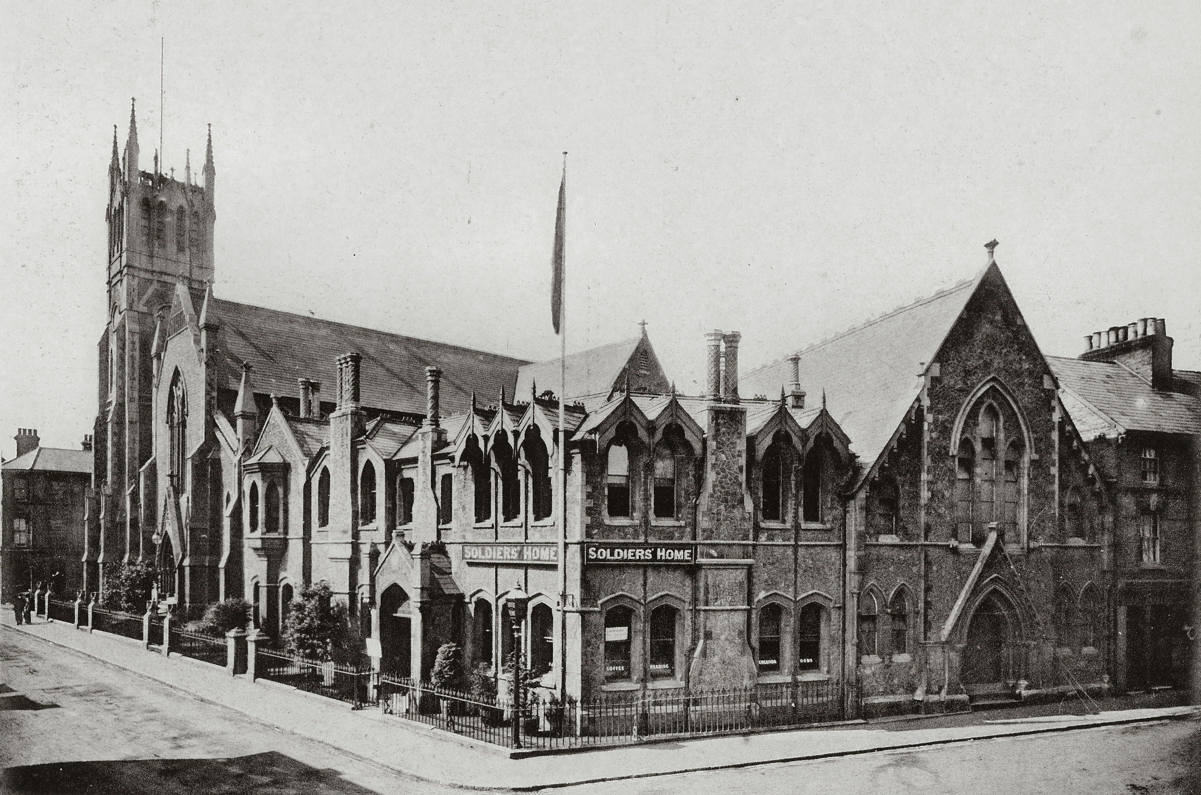 Photograph of the Wesleyan Church in Aldershot, Hampshire with adjacent Soldiers' Home.